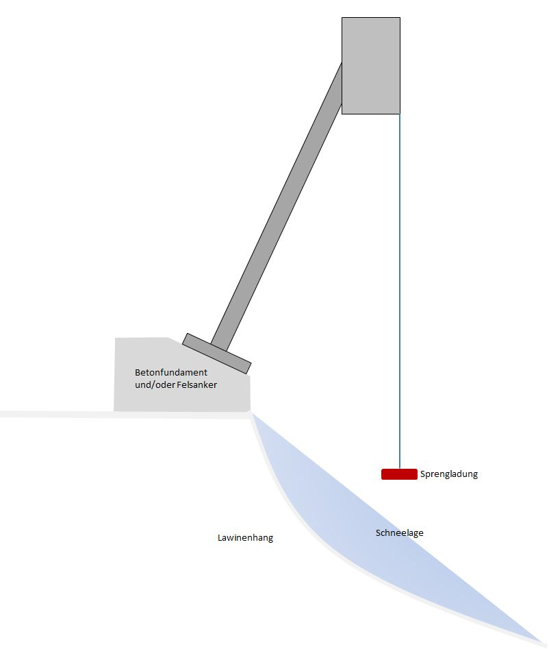 Simplified outline sketch of an avalanche blasting pylon (not to scale).